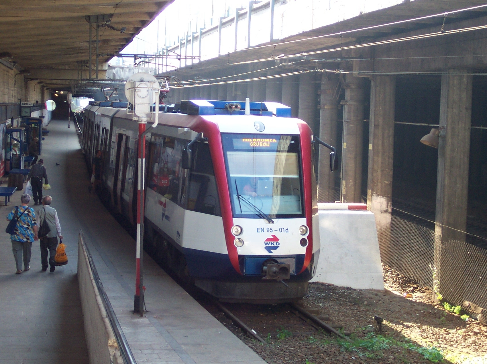 Warszawa Sródmiescie WKDstation. For more information see the Wikipedia article Warsaw Śródmieście WKD station.